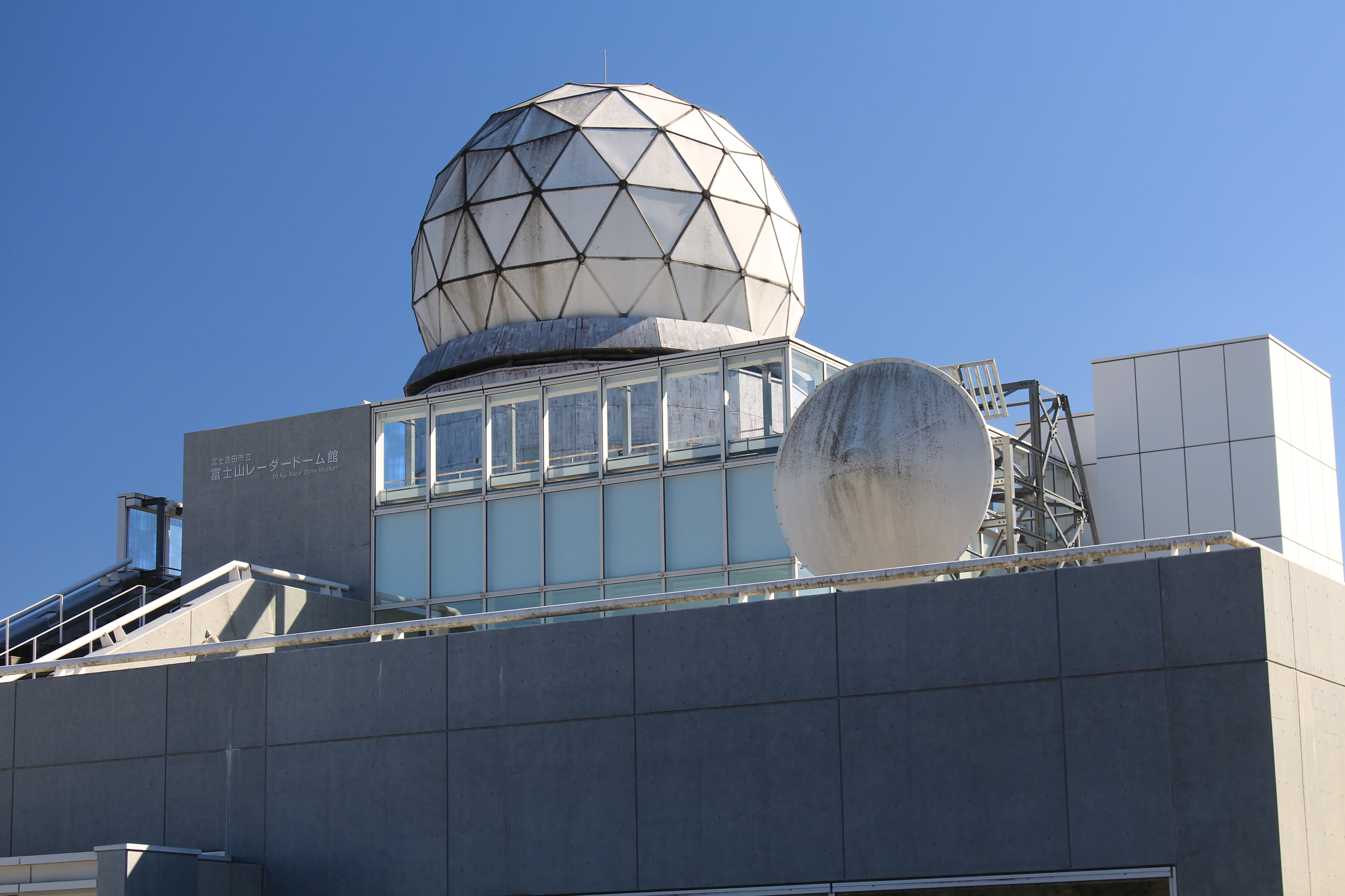 Mount Fuji Radar Dome Museum in Fujiyoshida, Yamanashi prefecture, Japan.